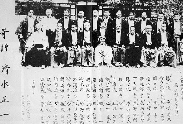 The front row, from left to right, Masamitsu Inazu, Yazō Eguchi, Takayoshi Katayama, Kumon Hoshino, Jigorō Kanō, Hideyoshi Totsuka, Jūshin Sekiguchi, Kōji Yano, Katsuta Hiratsuka.The back row, from left to right, Kihei Aoyagi, Mokichi Tsumizu, Hikosaburō Ōshima, Hōken Satō, Kōtarō Imai, Mataemon Tanabe, Shikatarō Takeno, Shūichi Nagaoka, Sakujirō Yokoyama, Hajime Isogai, Yoshiaki Yamashita.